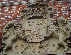 Swedish coat of arms, City hall, Stade, Lower Saxony